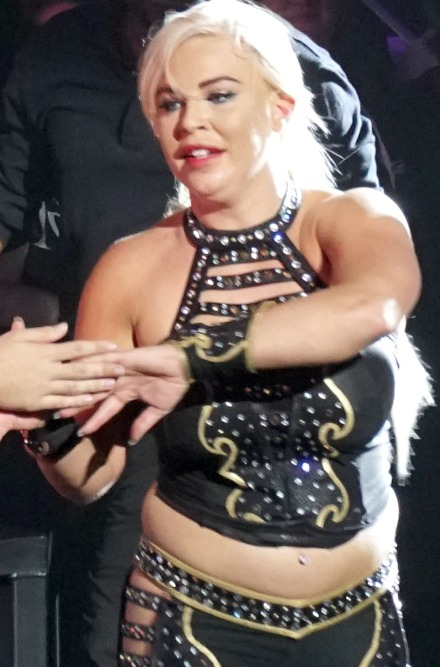 Dana Brooke celebrating a victory during a WWE live event in May 12, 2017.